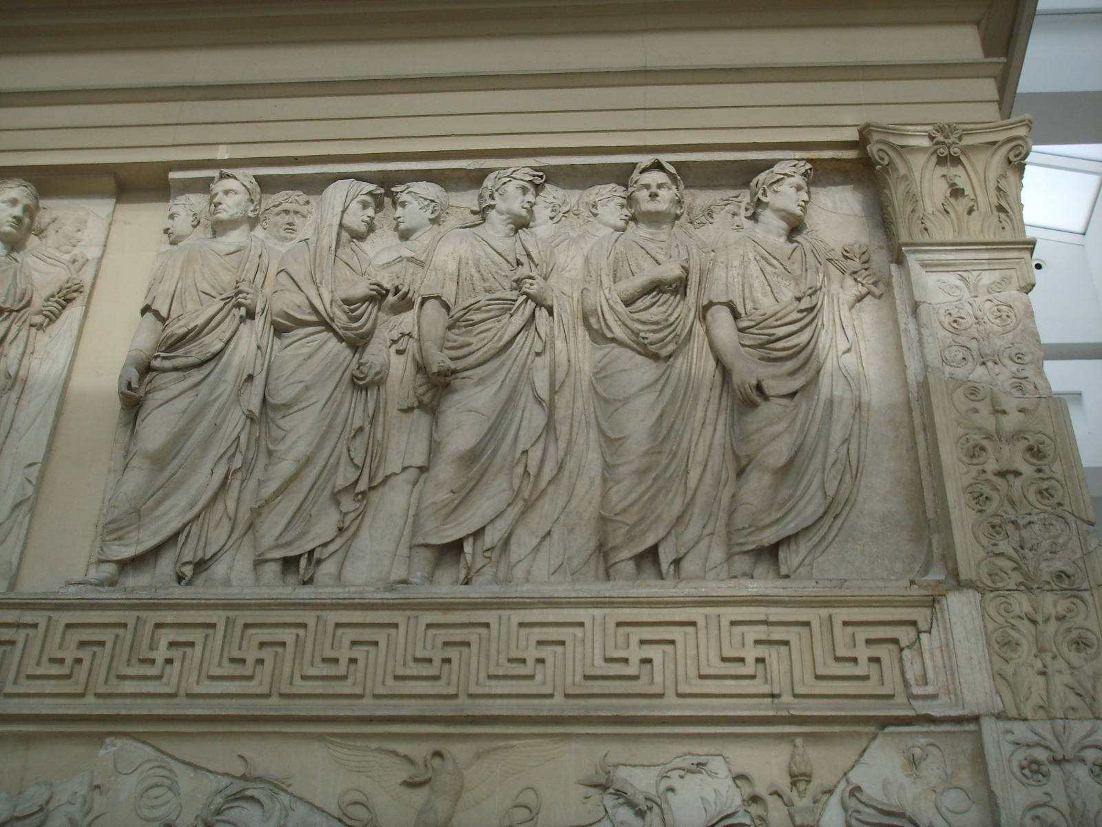 Ara Pacis, east side 1 in Rome, Italy